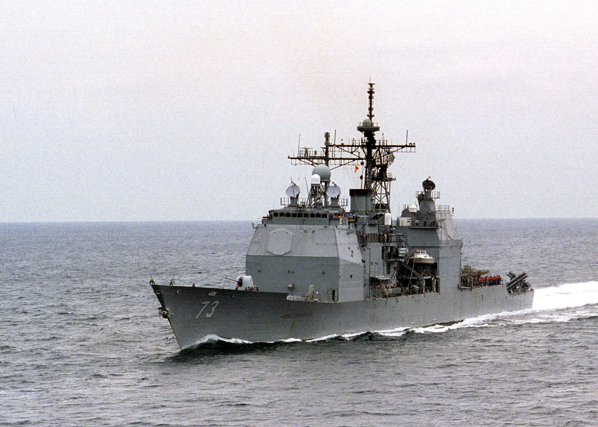 The USS Port Royal (CG 73) steams in the Persian Gulf as it conducts surface and air defense operations for the USS Nimitz (CVN 68) battle group on Nov. 7, 1997. The Ticonderoga class cruiser is equipped with AEGIS combat systems, and Tomahawk anti-ship and land attack missiles. The USS Nimitz (CVN 68) battle group is operating in the Persian Gulf in support of the U.S. and coalition enforcement of the no-fly-zone over Southern Iraq. DoD photo by Petty Officer 3rd Class Christopher Mobley, U.S. Navy.